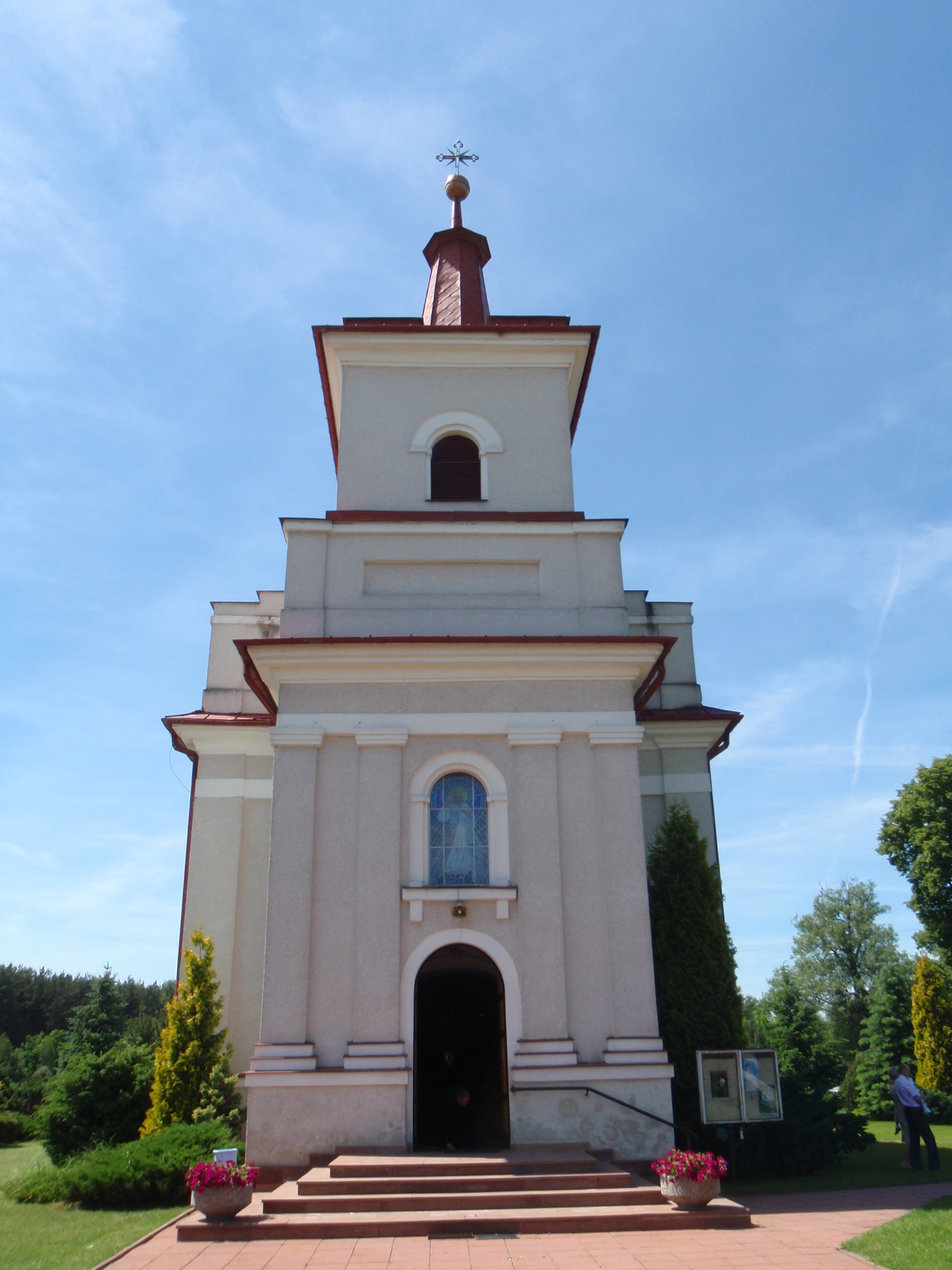 Church in Goryń, Gmina Jastrzębia